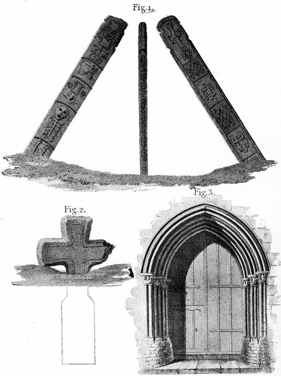 Drawings of the pre-Christian standing stones at St Padarn's Church, Llanbadarn Fawr, from Sir Samuel Meyrick's, "History and Antiquities of the County of Cardigan" (1810).jpg